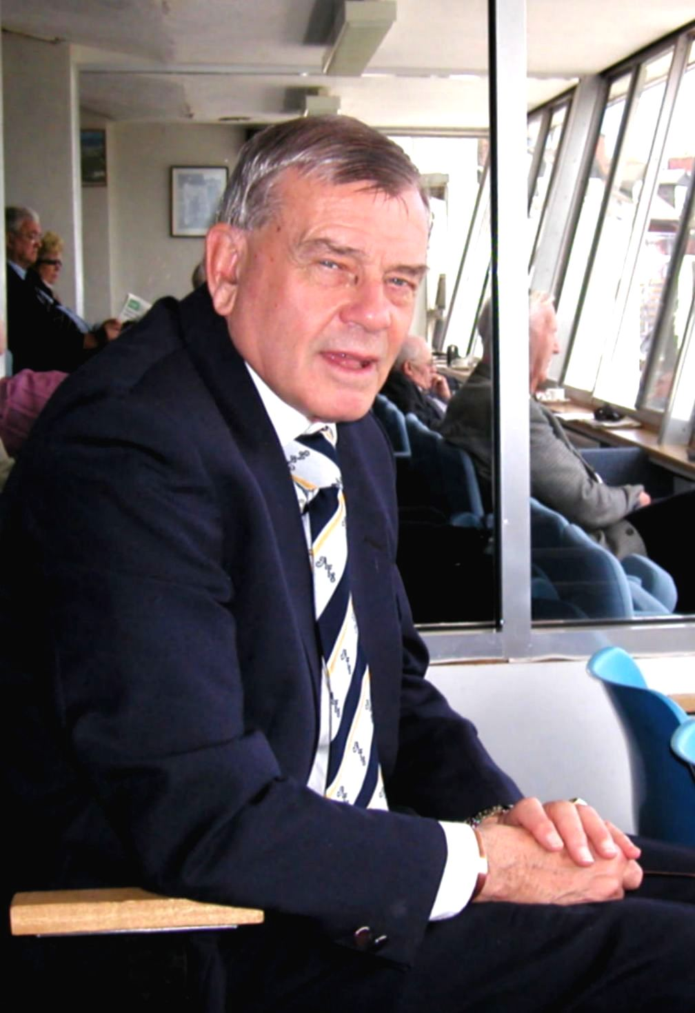 Dickie Bird at Headingley, 2006 In any reproduction, acknowledgement must be given in the form: Photographer: Gareth J Dykes